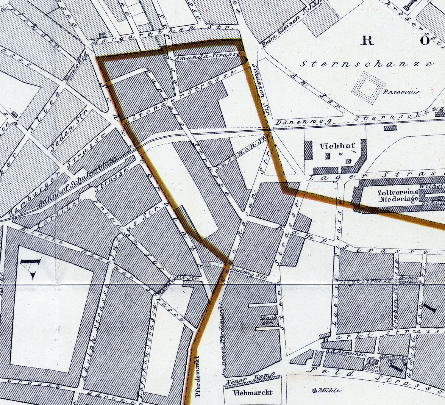 City map of Hamburg from 1880